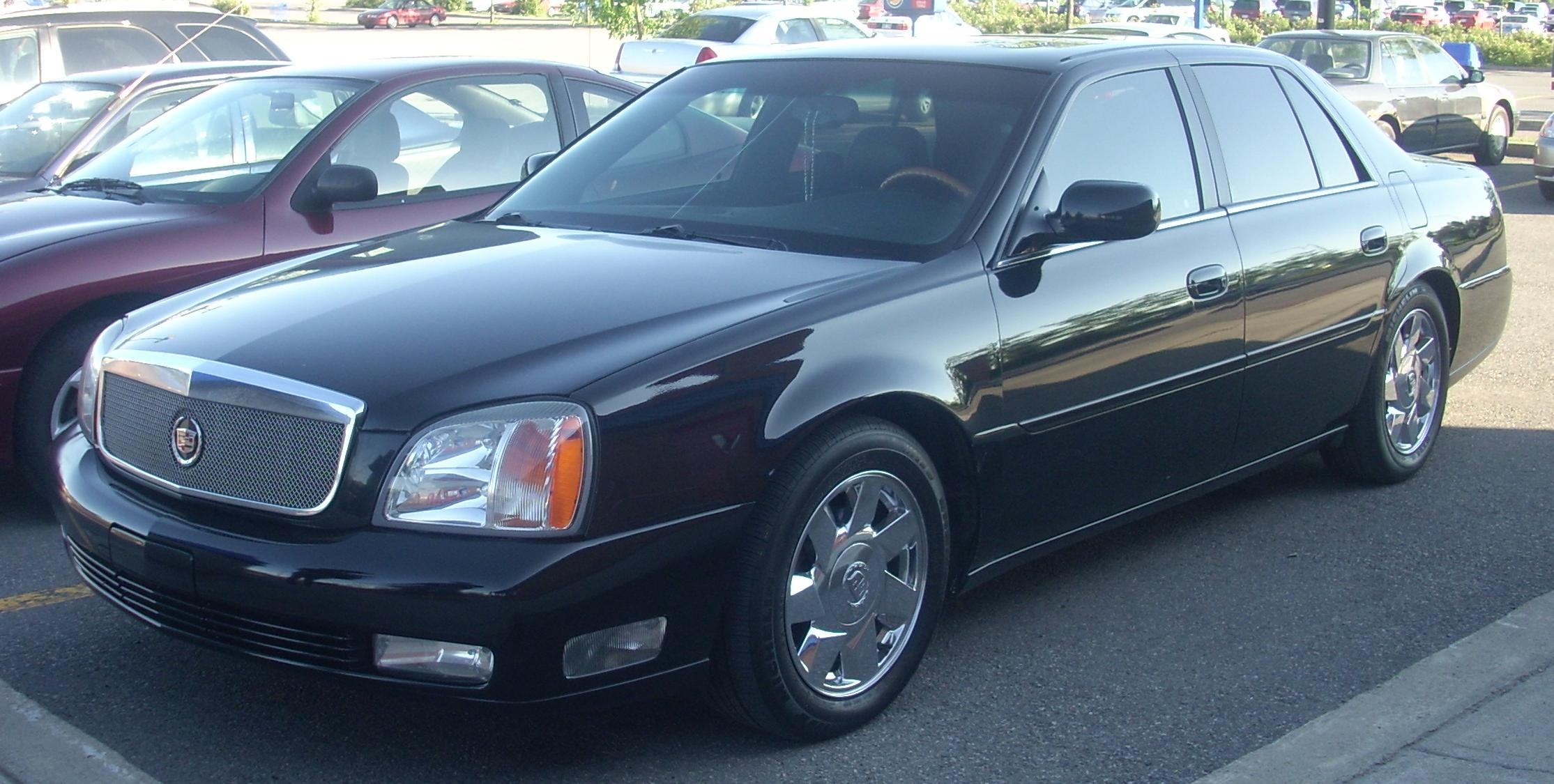 2000 Cadillac DeVille photographed in Montreal, Quebec, Canada.